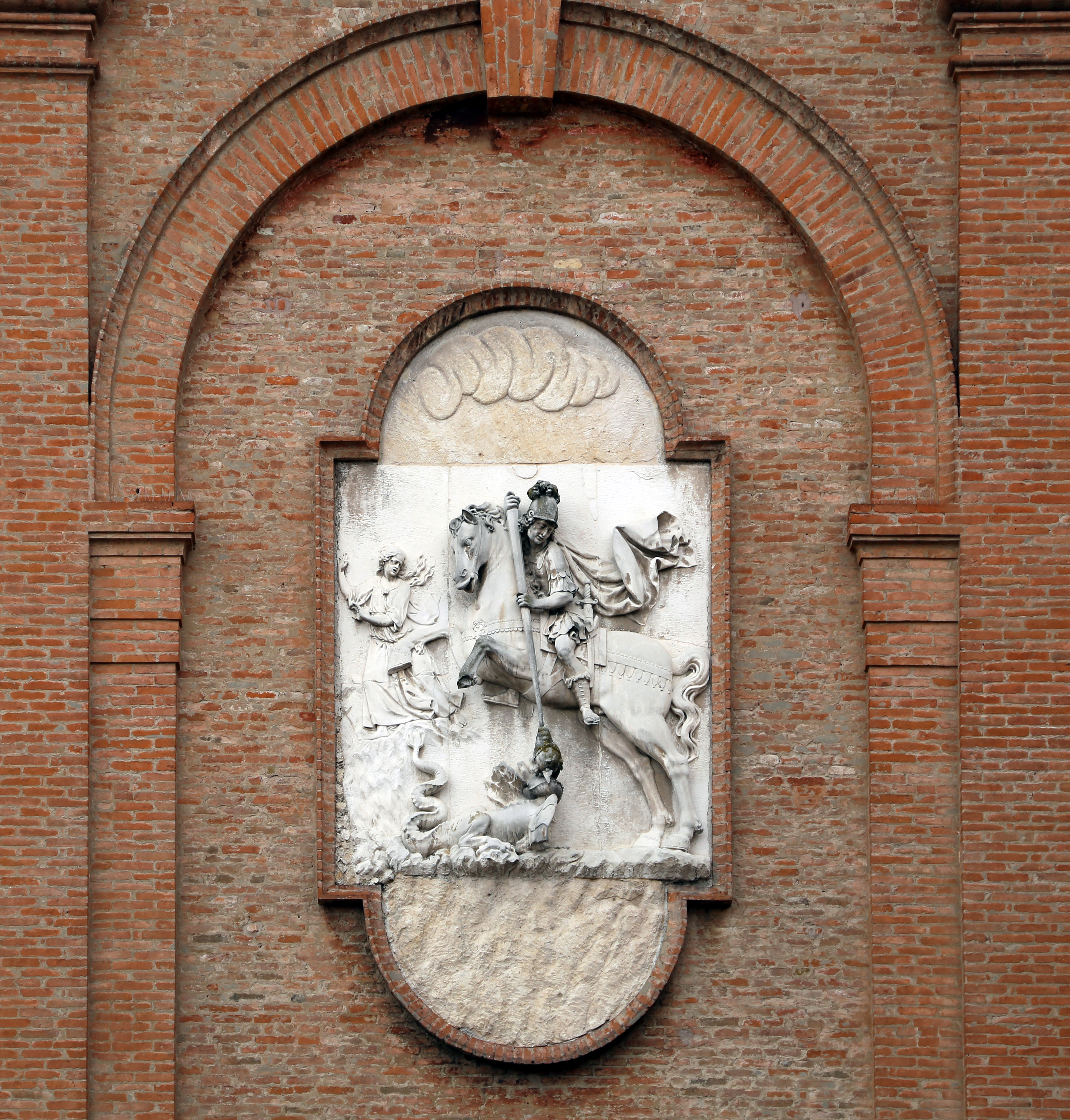 San Giorgio fuori le Mura (Ferrara)